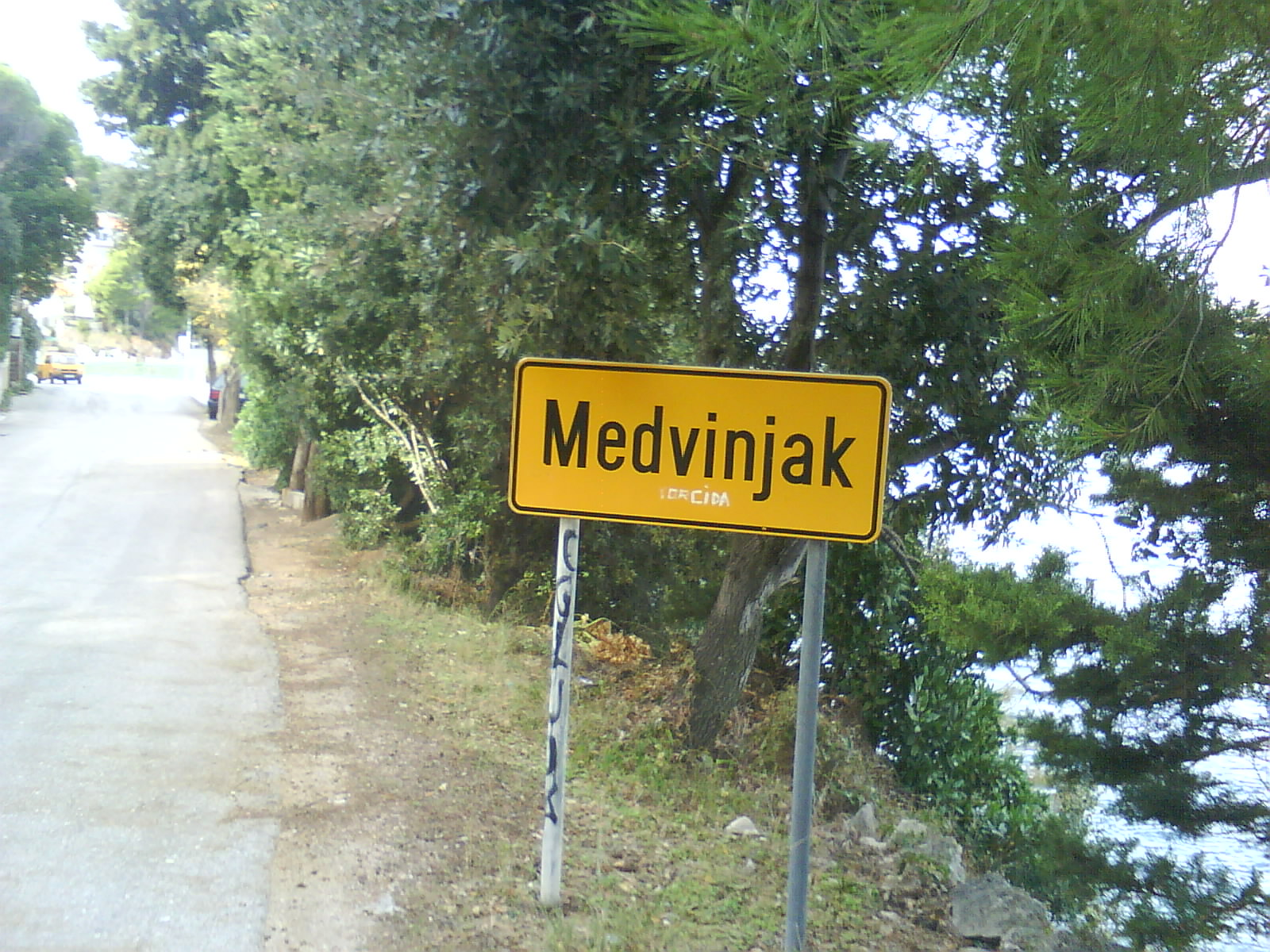 Medvinjak , suburbs of Korčula city